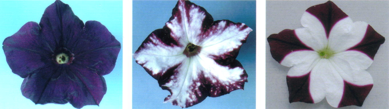 Early Examples of Gene Silencing in Transgenic Plants